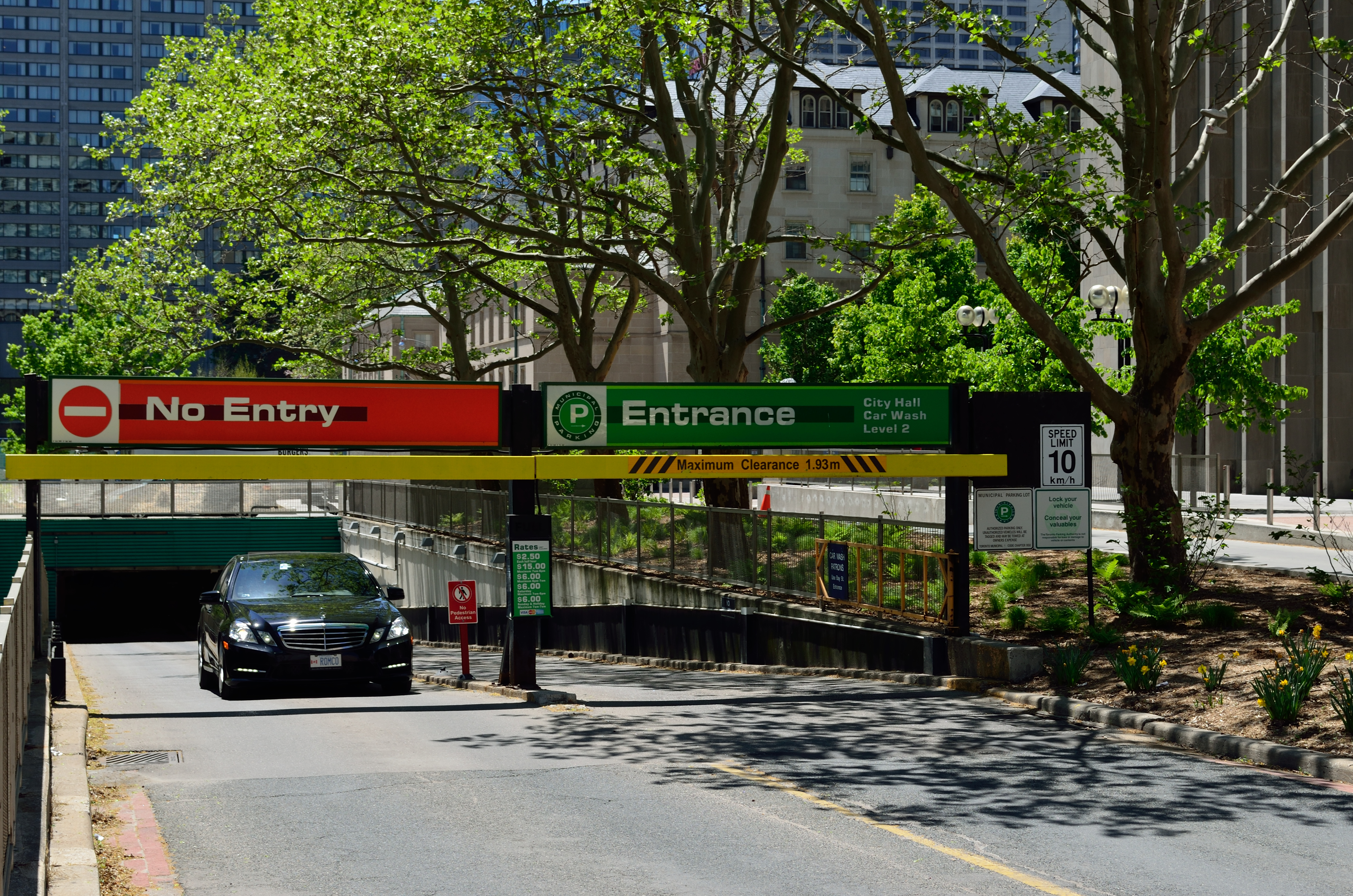 Toronto City Hall UndergroundParking